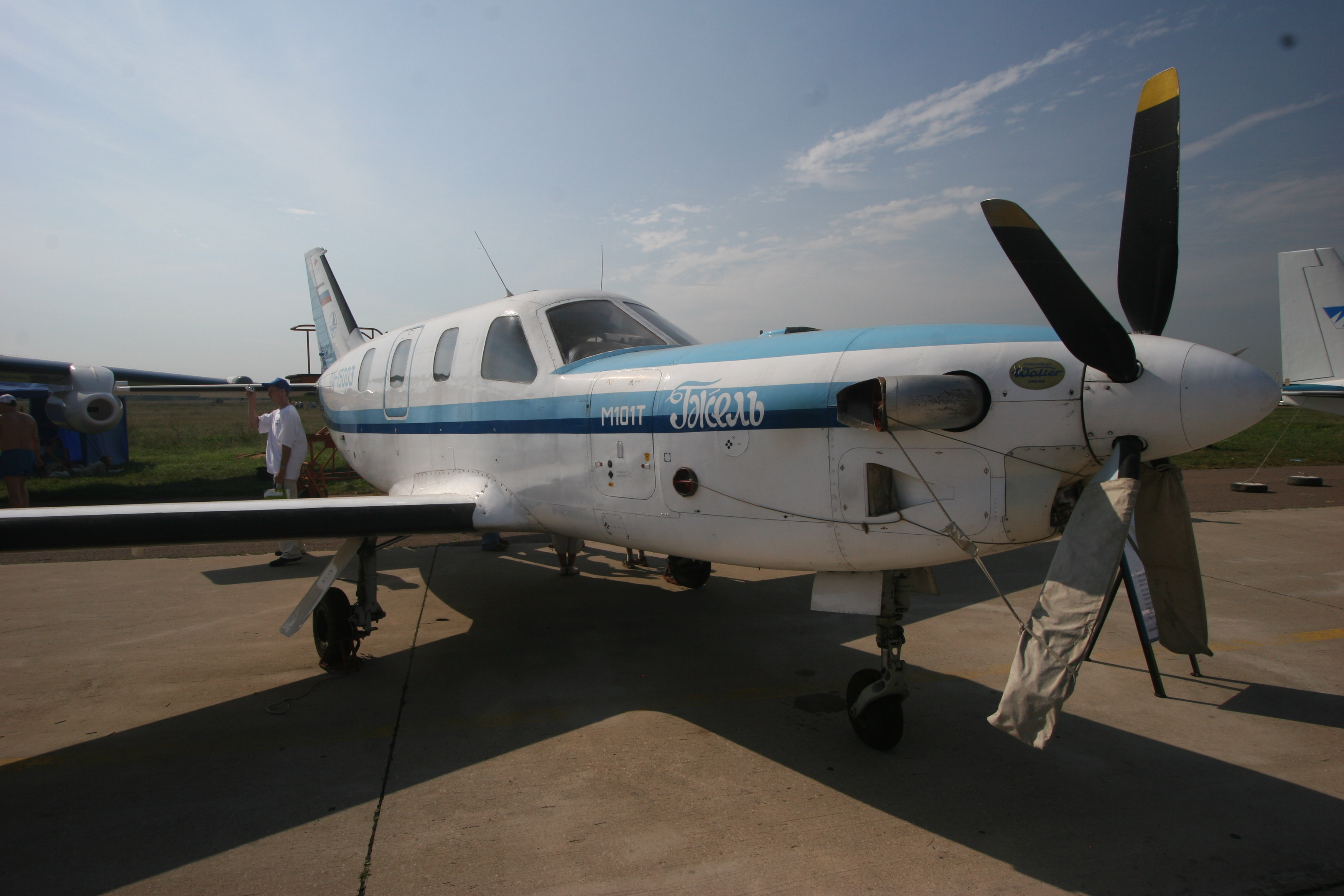 Myasishchev M-101T Gzhel on 2007 MAKS Airshow